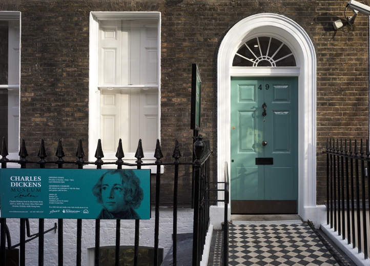 Charles Dickens Museum London, 48 and 49 Doughty Street.